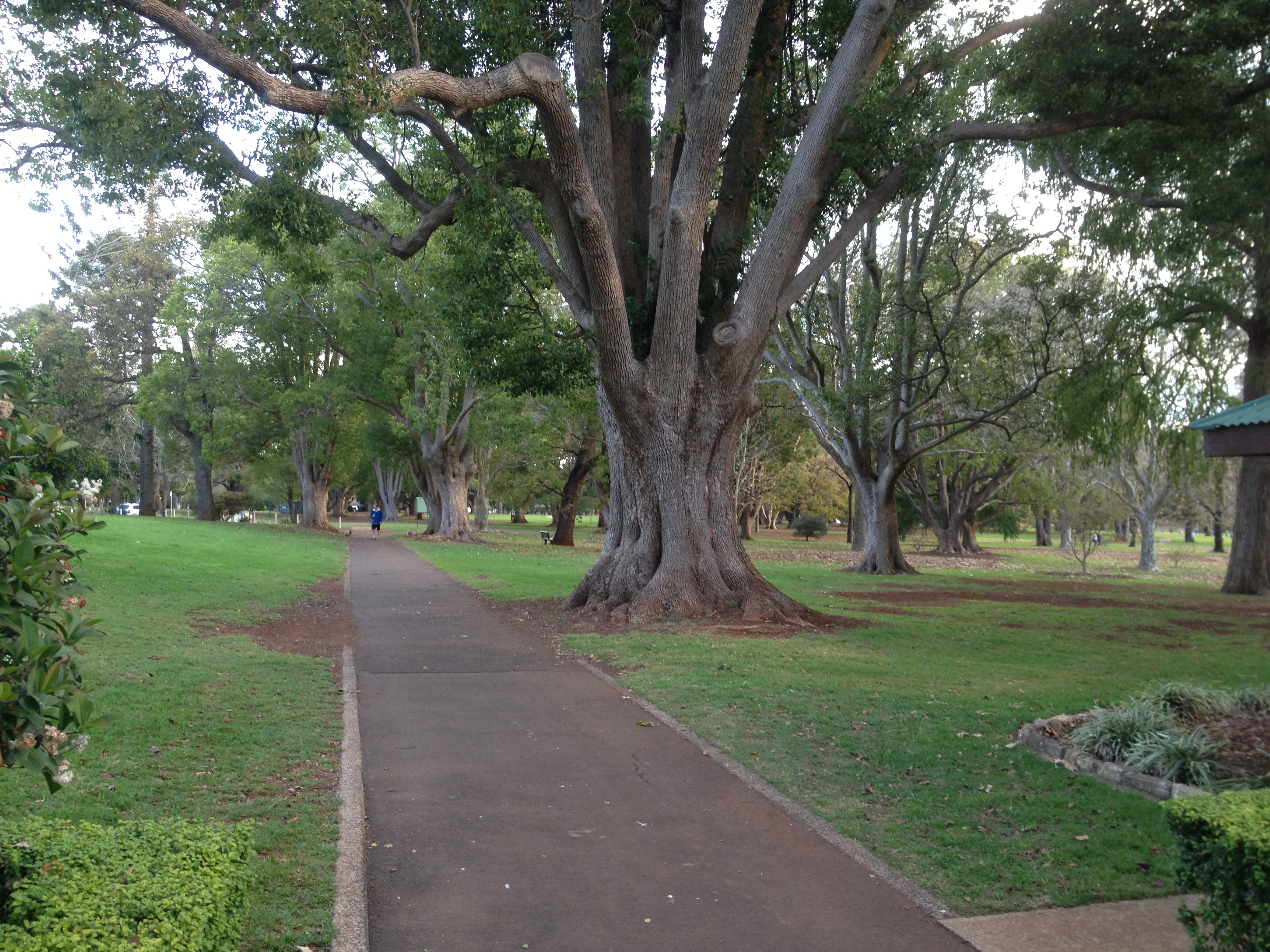 Queens Park Toowoomba, Queensland, Australia